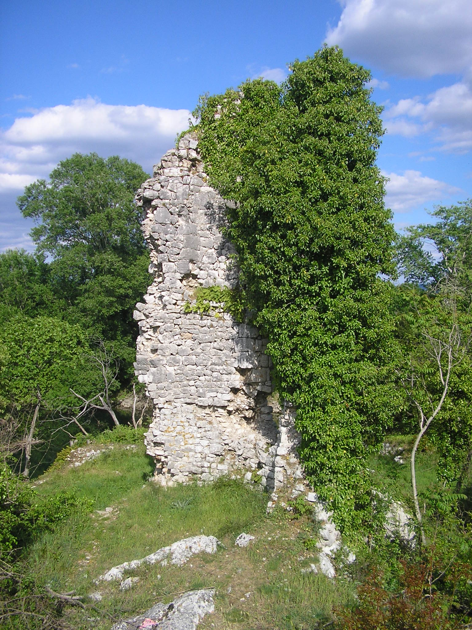 Rt tower near Dračevo (BiH)